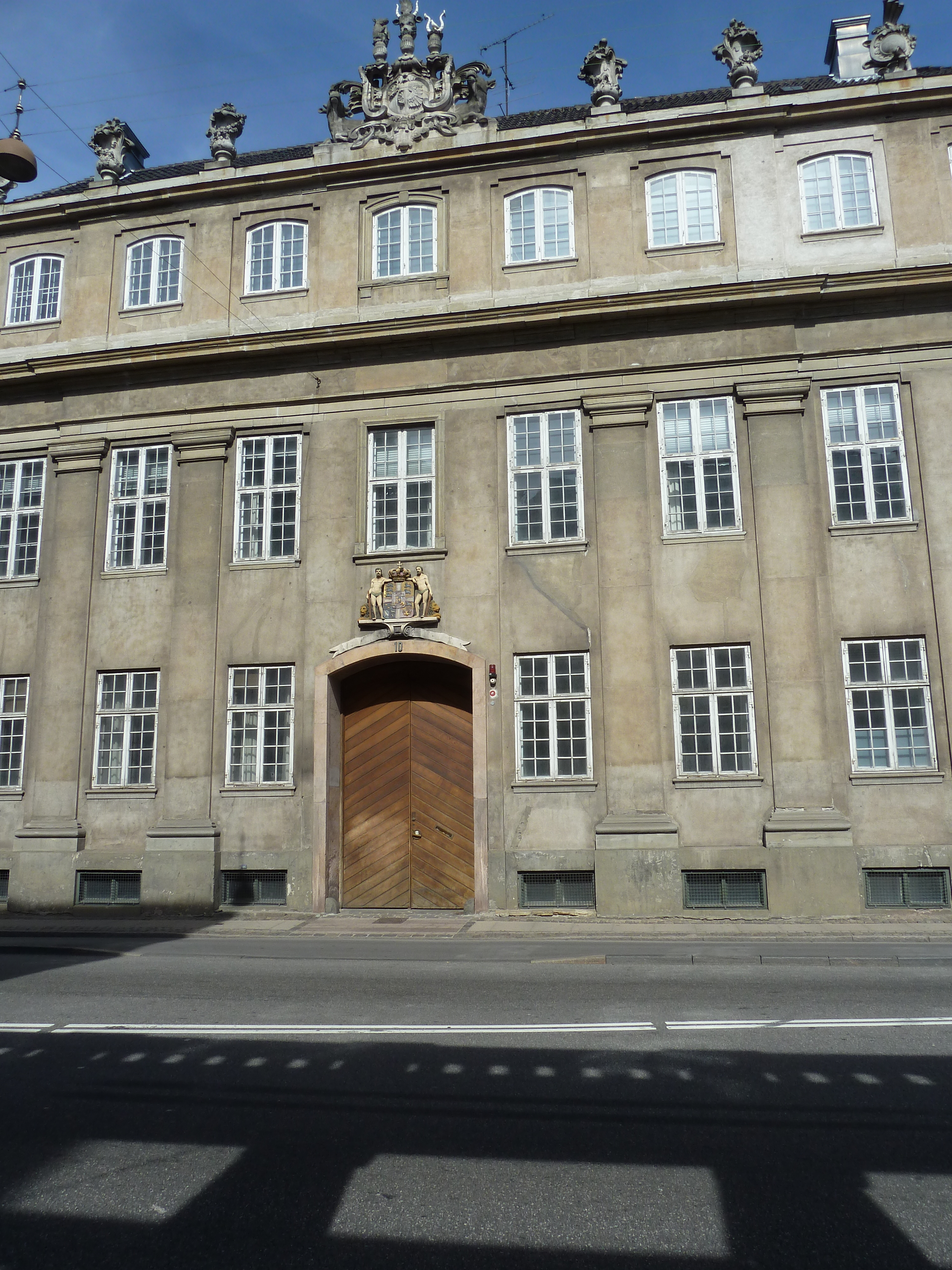 Holsteins Palæ in Stormgade in Copenhagen, Denmark